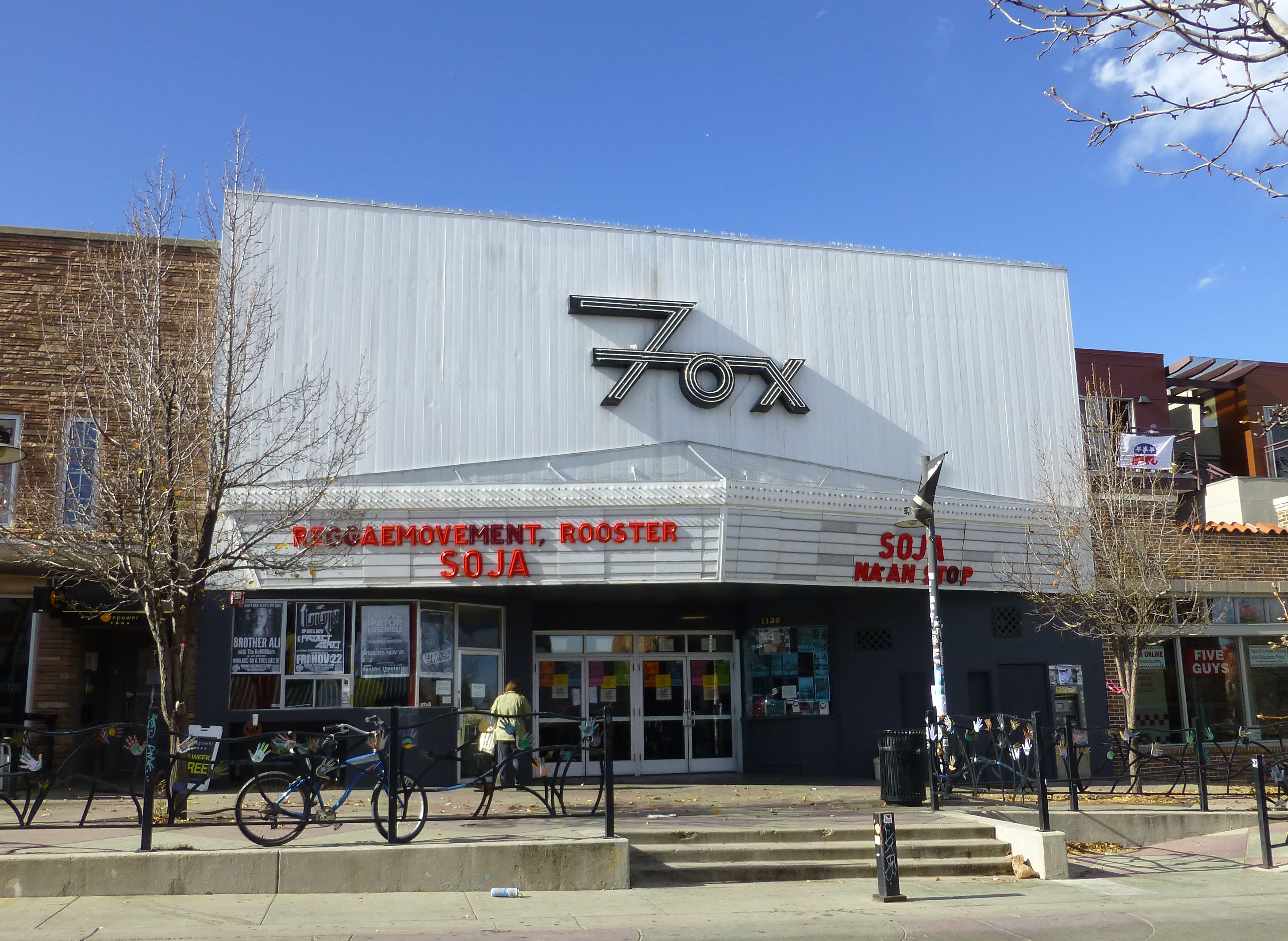 Exterior shot of Fox Theater, Boulder CO